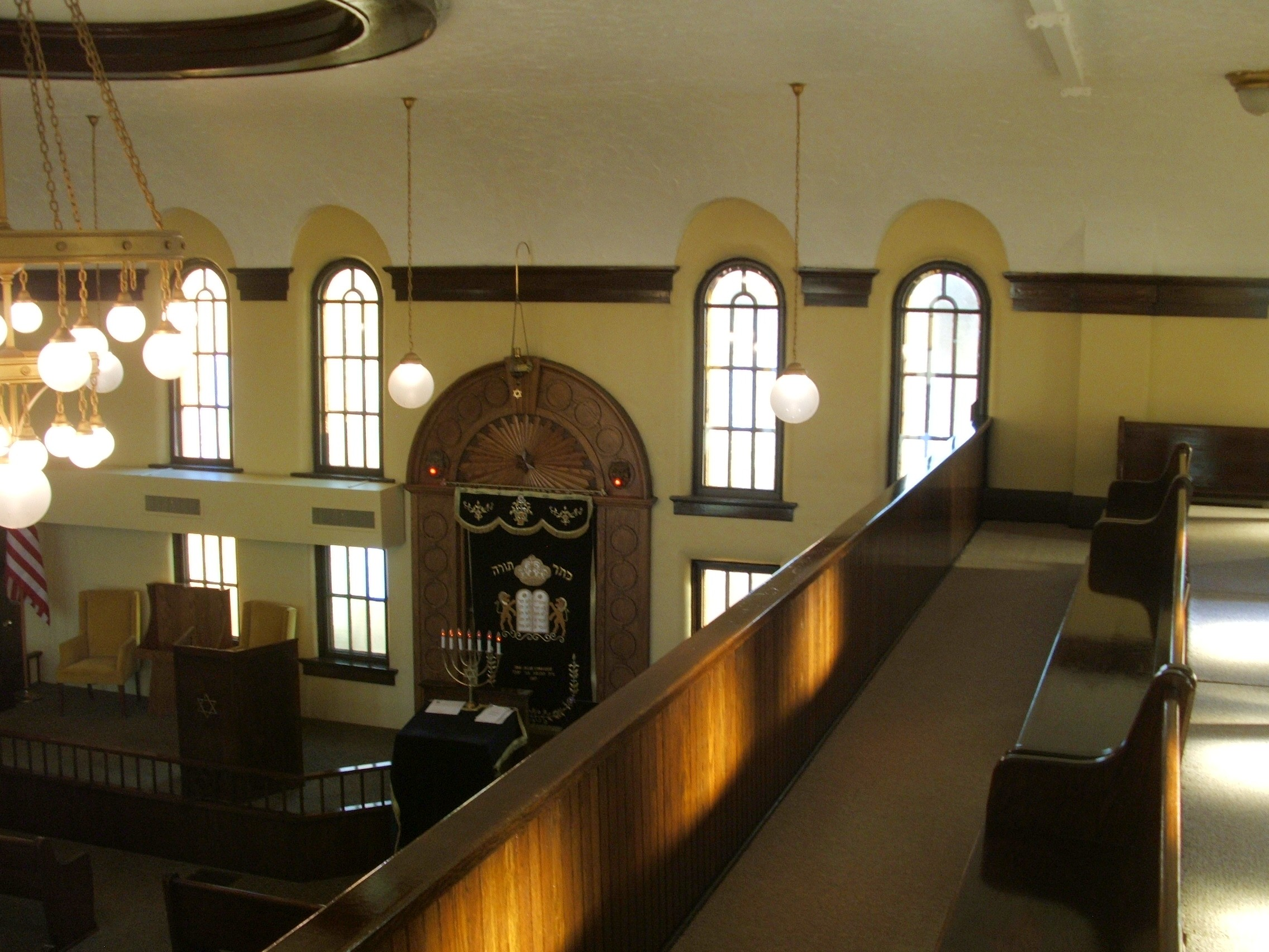 View from the women's gallery behind the Mechitza of the Torah ark in the B'nai Jacob Synagogue (Ottumwa, Iowa).